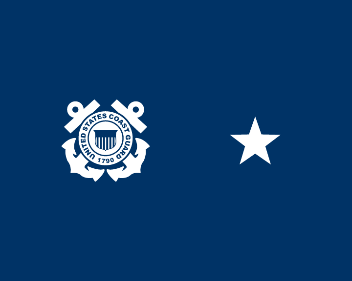 U.S. Coast Guard Flag of Rear Admiral (Lower Half) Websafe Colors